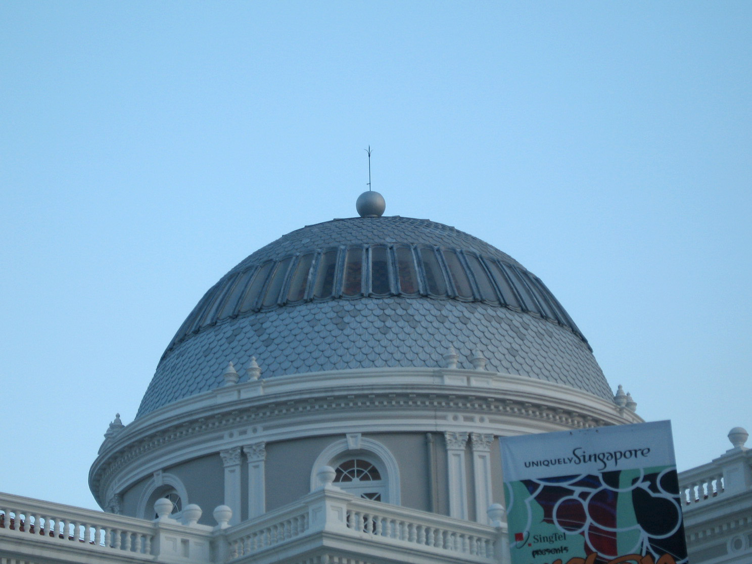 National Museum of Singapore.